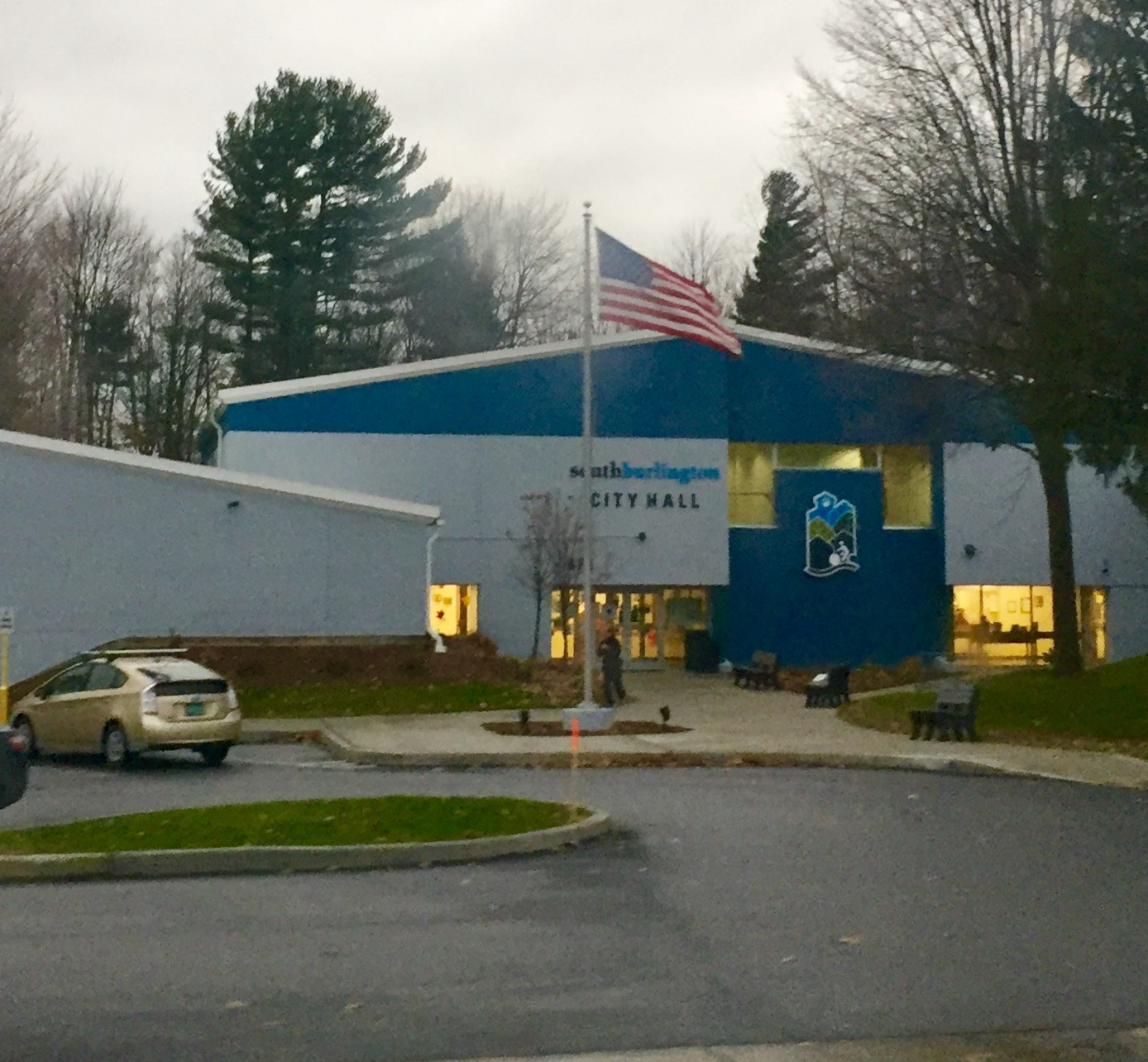 City hall of South Burlington, Vermont, USA viewed from Dorset Street.